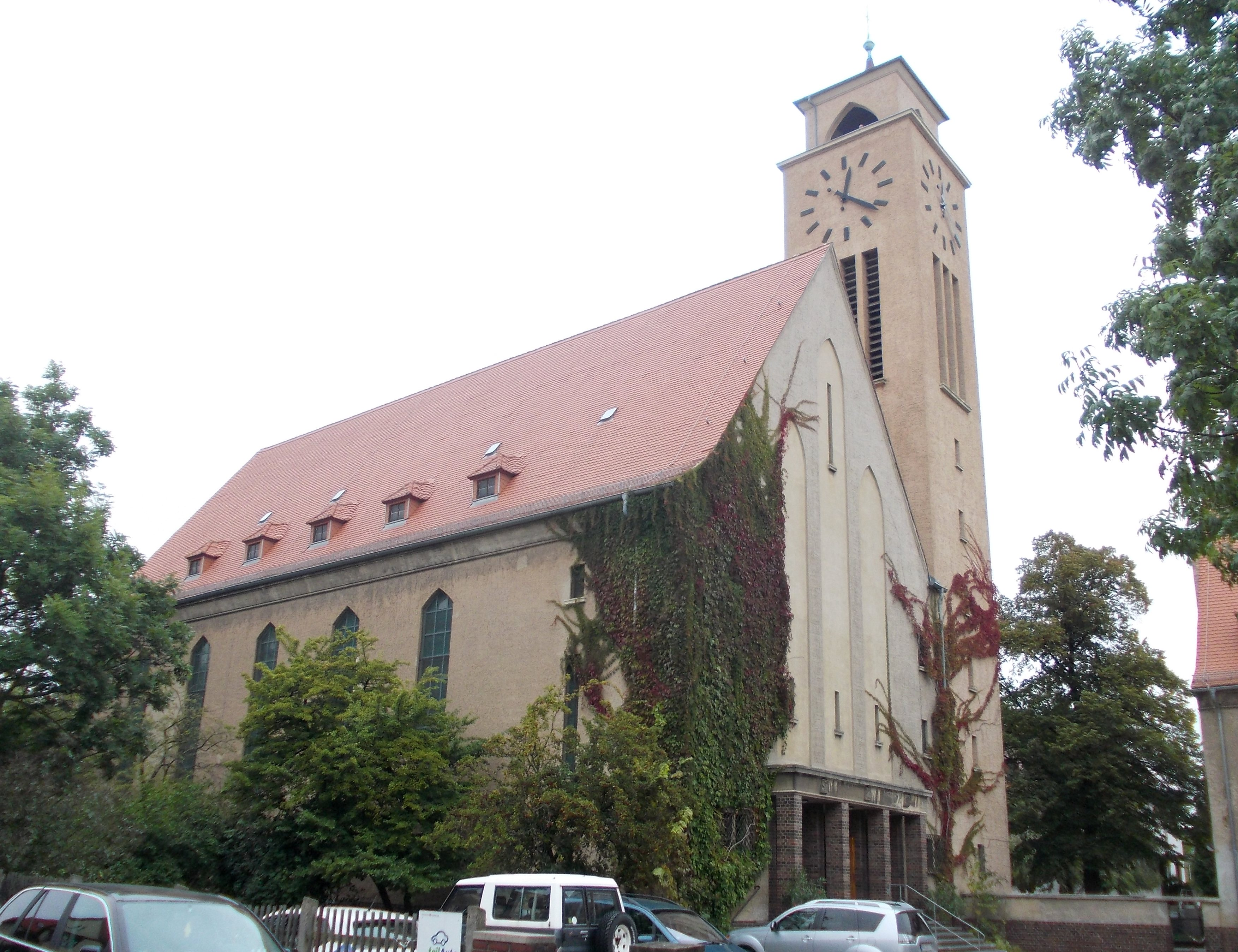 Luther Church in Halle/Saale (Saxony-Anhalt)